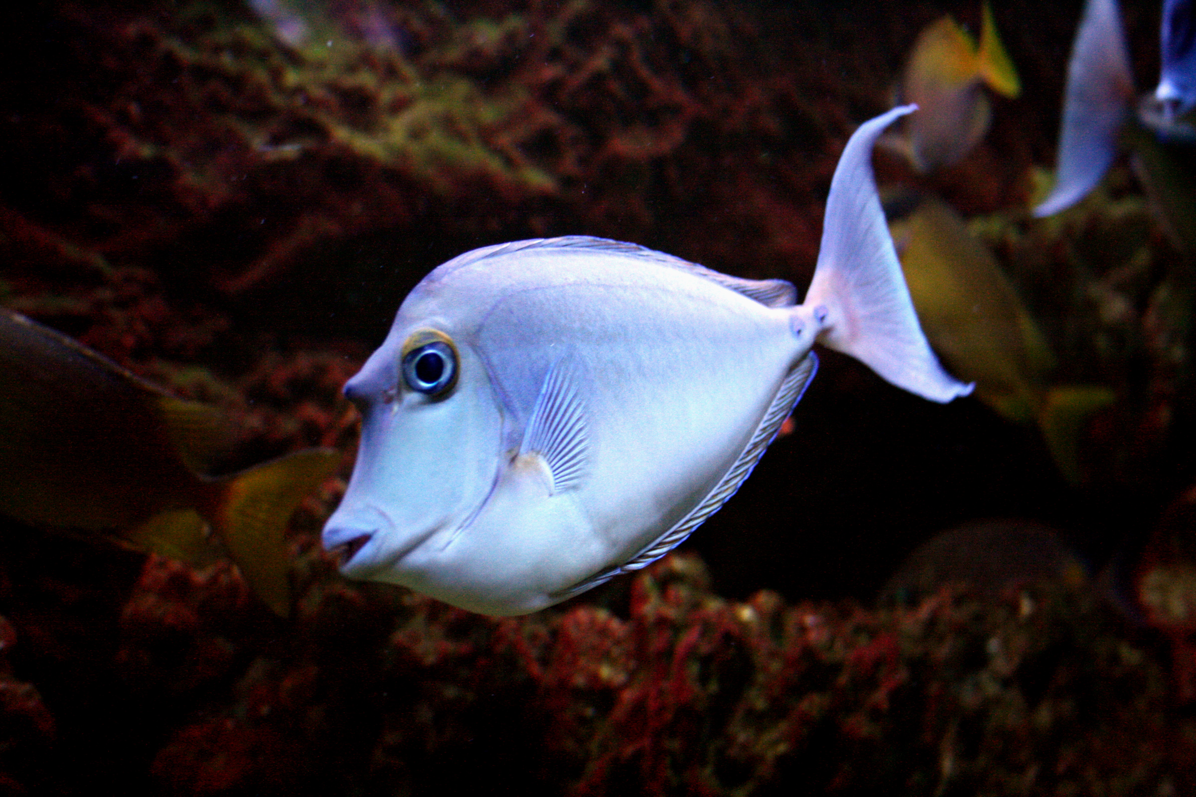 Fish Naso unicornis in Prague sea aquarium, Czech Republic